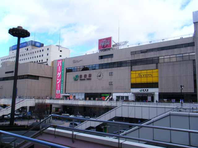 Takasaki station Building(west buld.) Takasaki city, Gumma Japan